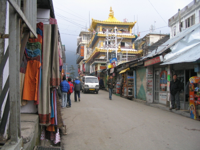 mountains and street near by the citie of dharamsala (india)